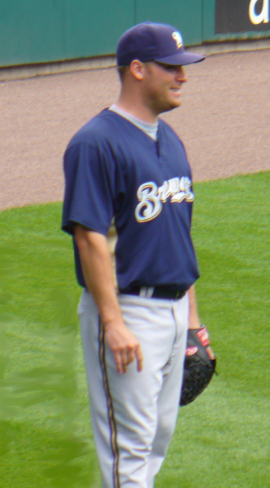 Image of Ben Sheets before a game in St. Louis. Ben Sheets was on the disabled list at time of photo